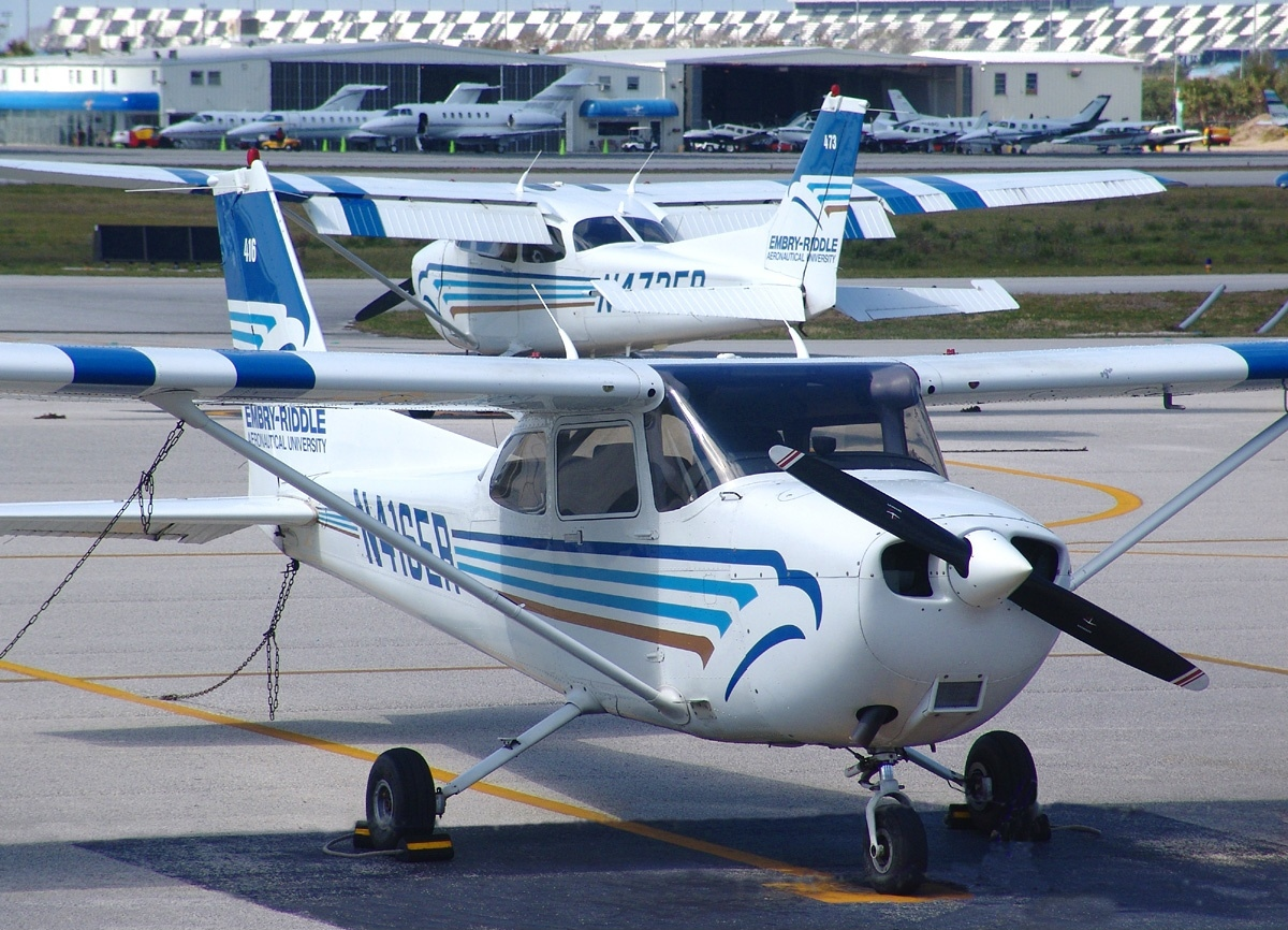 It is always nice to visit Riddle again! Dedicated to all students, professors and alumni.